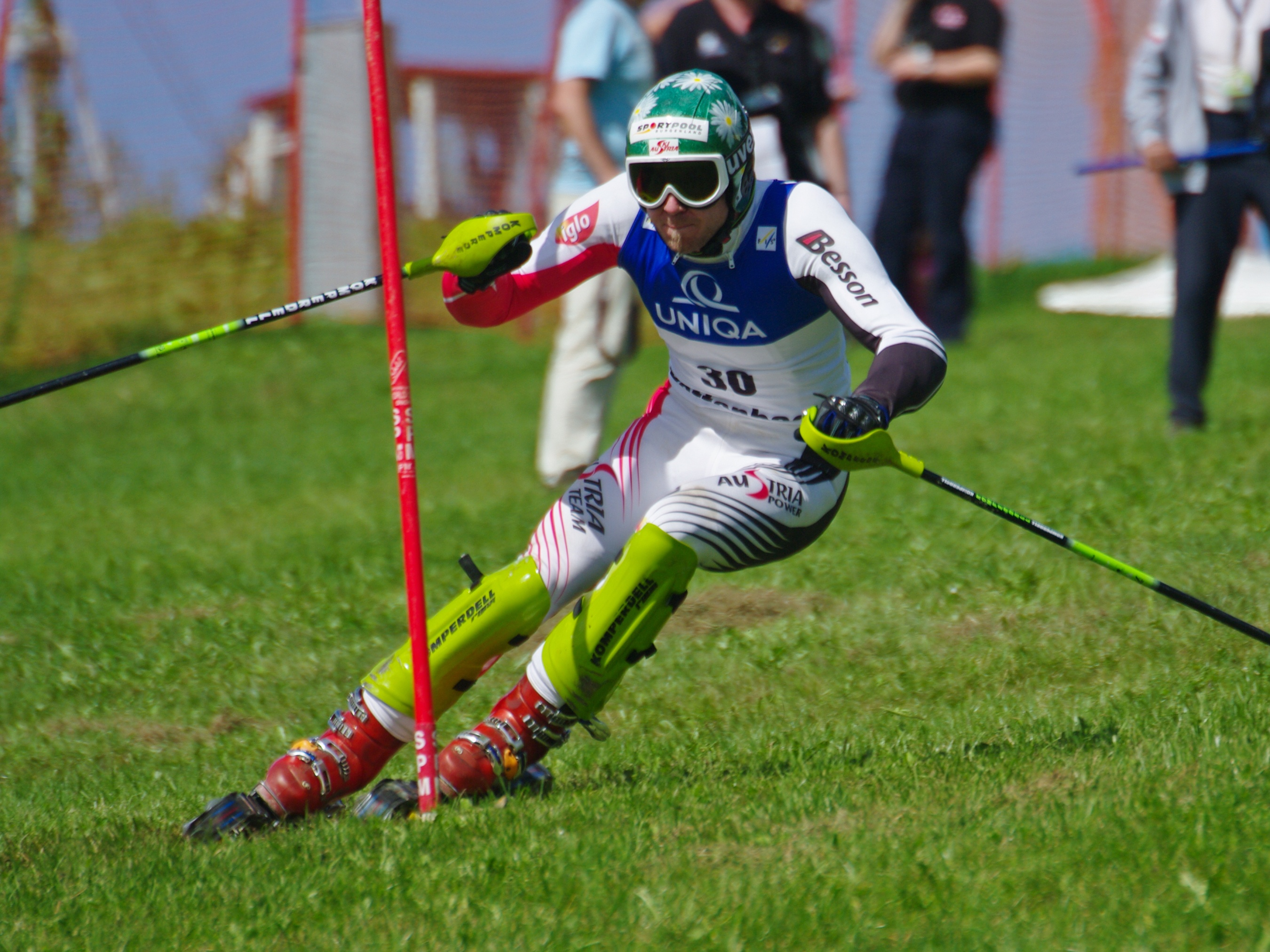 Austrian grass skier Michael Stocker in the second slalom run at the 2009 Grass Skiing World Championships in Rettenbach, Austria.